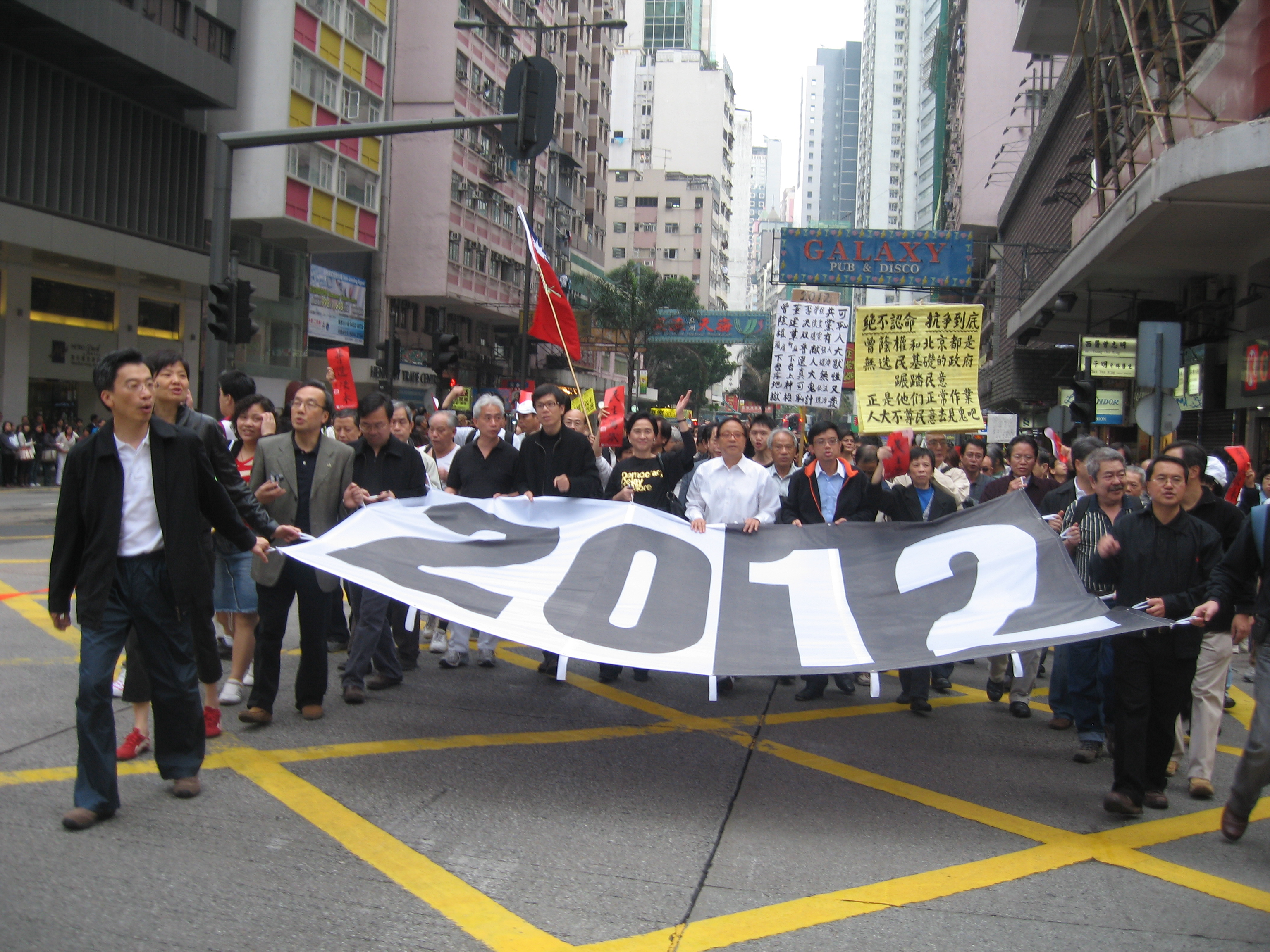 March for democracy in Hong Kong -- 1.13.2008